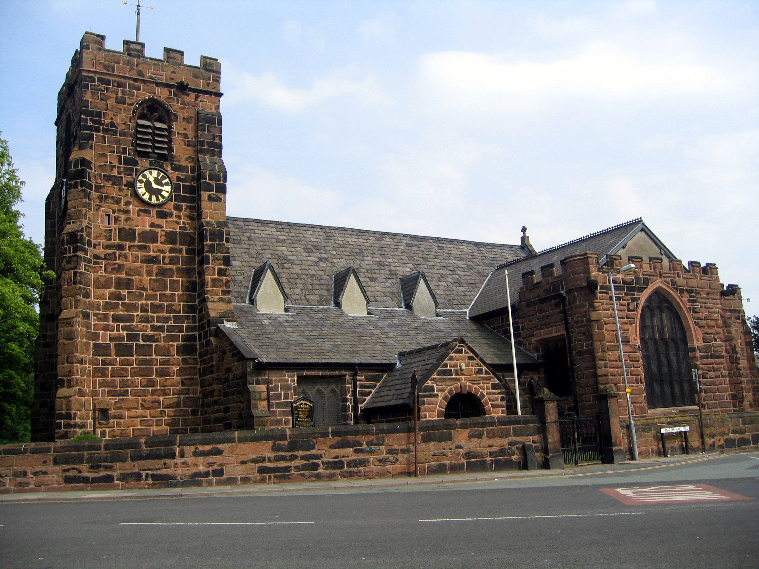 St Luke's parish church, Pit Lane, Farnworth, Widnes, Cheshire (formerly Lancashire), seen from the south